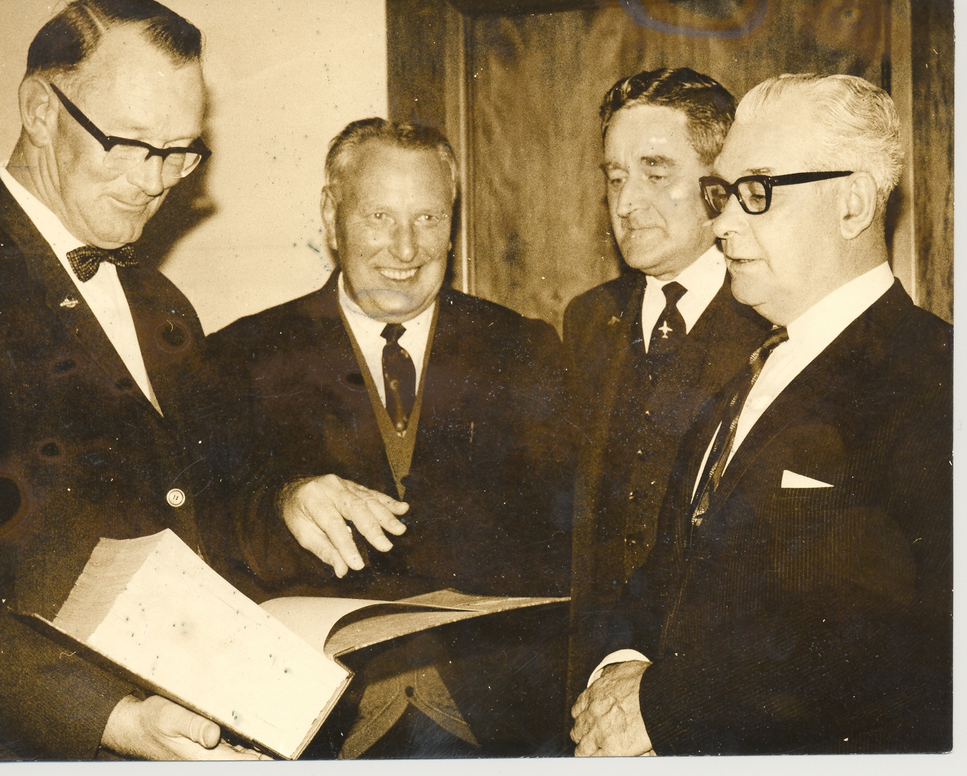 Mr I.W. Tollan (left), head of the deputation, prepares to hand the bound petition, protesting against the tactics of the P.N. Hospital Board in not proceeding with stage II of the Horowhenua Hospital, to the Prime Minister, Mr Holyoake (right), Allan McCready (centre-right) & John Gibbs Churchill (centre-left).